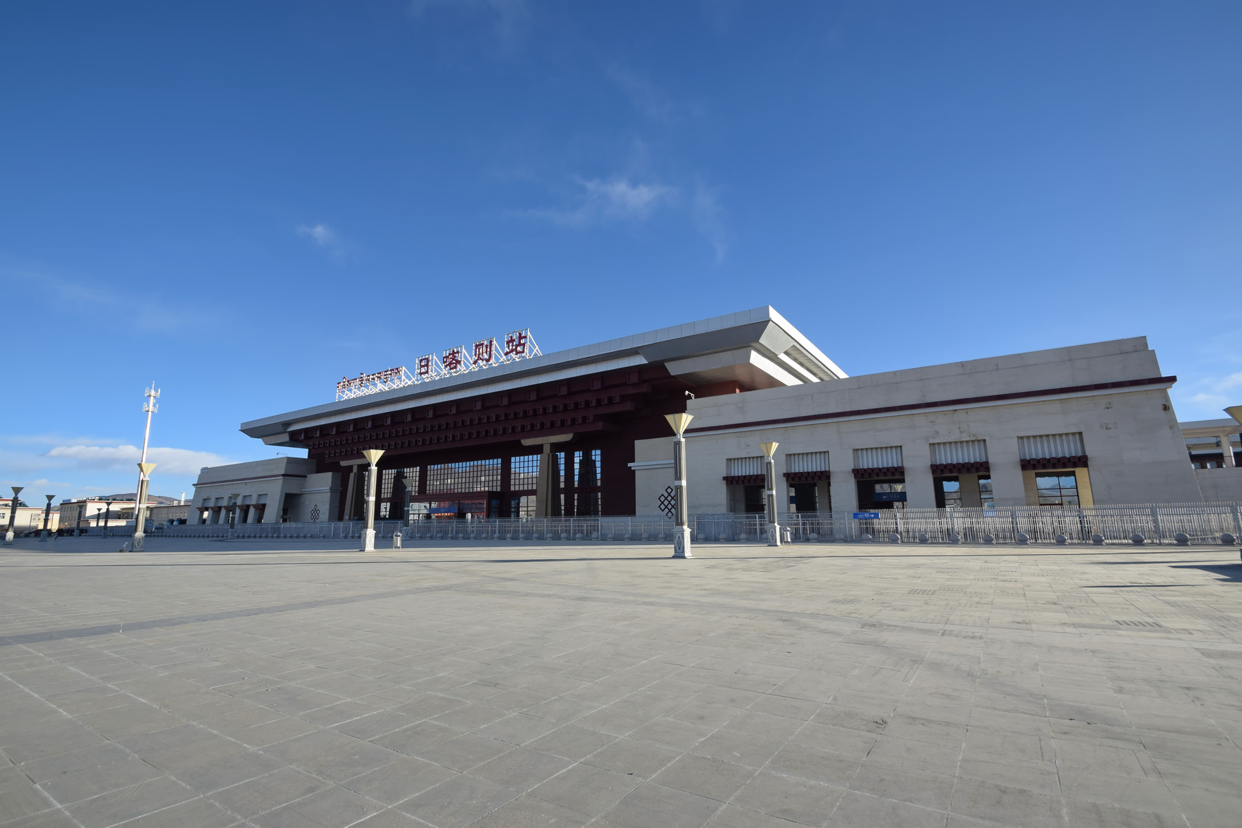 Rikaze (Xigazê / Shigatse) Railway Station, Lhasa-Shigatse Railway